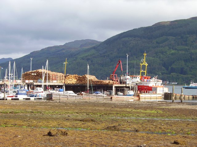 Timber being loaded at Sandbank, Cowal